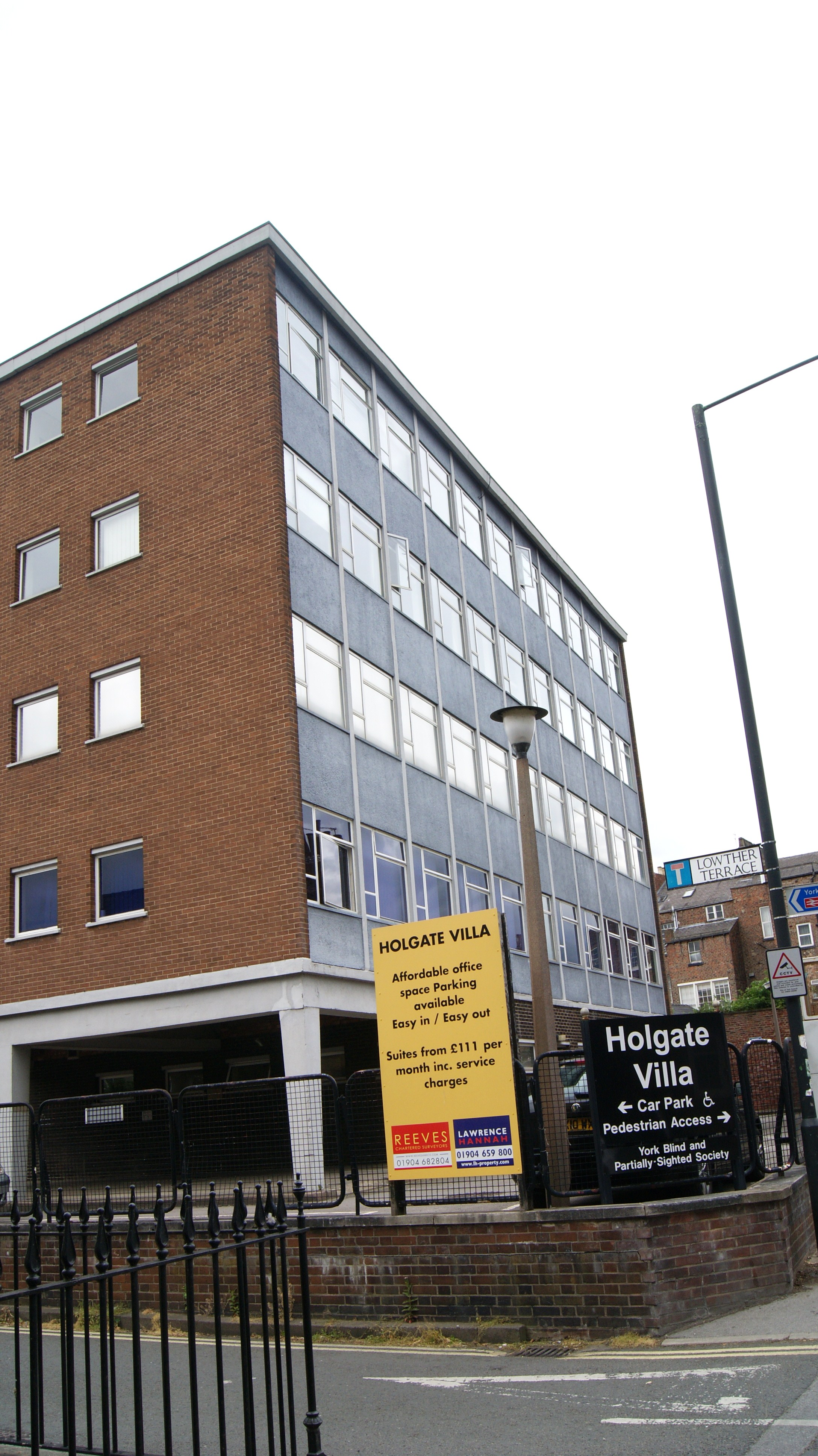 Holgate Villa, Holgate Road, York, North Yorkshire. Taken on the afternoon of Wednesday the 12th of June 2013.